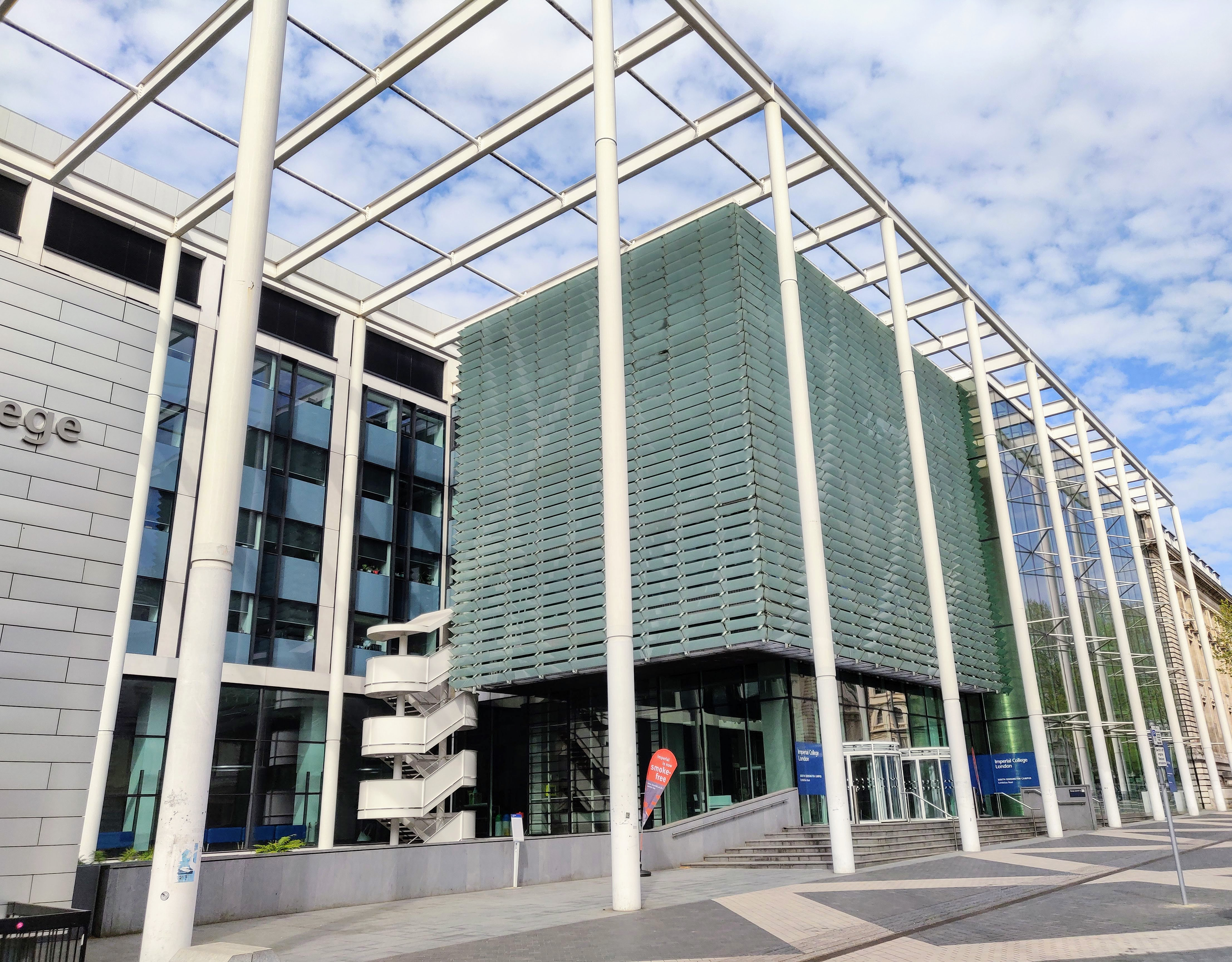 The main entrance and business school of Imperial College London along Exhibition Road